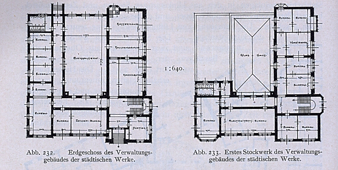 u